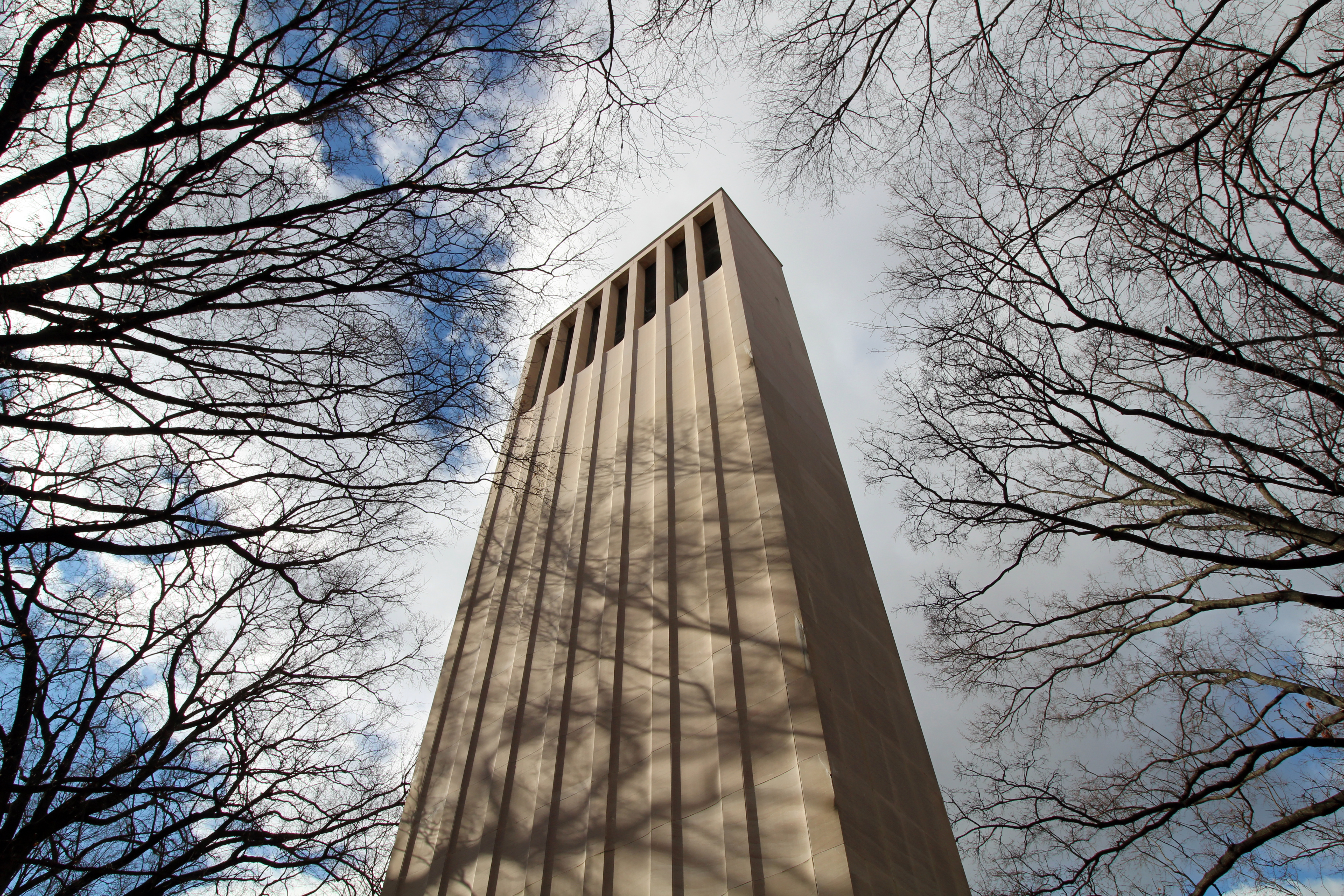 The Robert A. Taft Memorial, located in Washington, D.C., photographed from the east and facing the memorial to the west, with Constitution Avenue NW to the left (south).